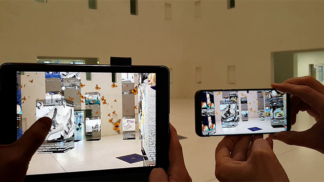 10.000 Moving Cities – Same but Different, AR (Augmented Reality) Mobile App, AR Multiplayer Game With the Augmented Reality App 10.000 Moving Cities – Same but Different one moves between the imaginary buildings via smartphone and tablet and participates in the digital communication streams and social movements of our time by means of inserted Social Media Posts. The buildings can be destroyed and rebuilt by the users. But beware! Everyone sees what the other is doing from different perspectives. The more buildings disappear, the more creatures appear. Marc Lee in collaboration with the Intelligent Sensor-Actuator-Systems Laboratory (ISAS) at the Karlsruhe Institute of Technology (KIT) and the Stadtbibliothek Stuttgart.